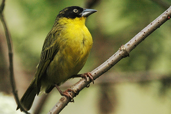 Uganda Baglafecht Weaver (Ploceus baglafecht) Buhoma, Bwindi NP Jan 2006